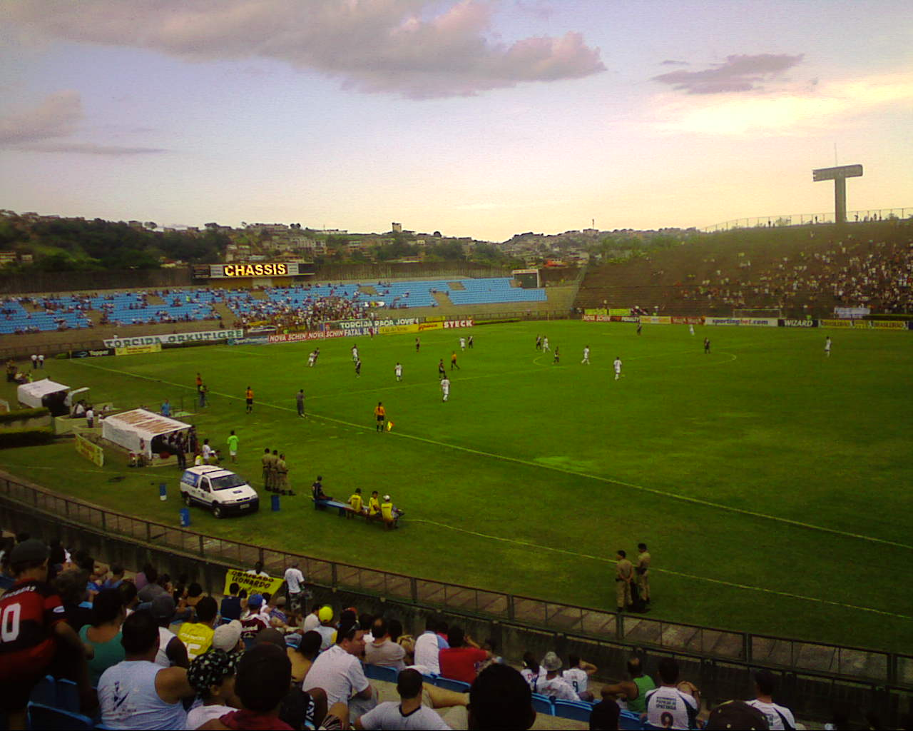 Game between Ipatinga F. C. X Club de Regatas Vasco da Gama in November 2009, the series B of the Brazilian championship.